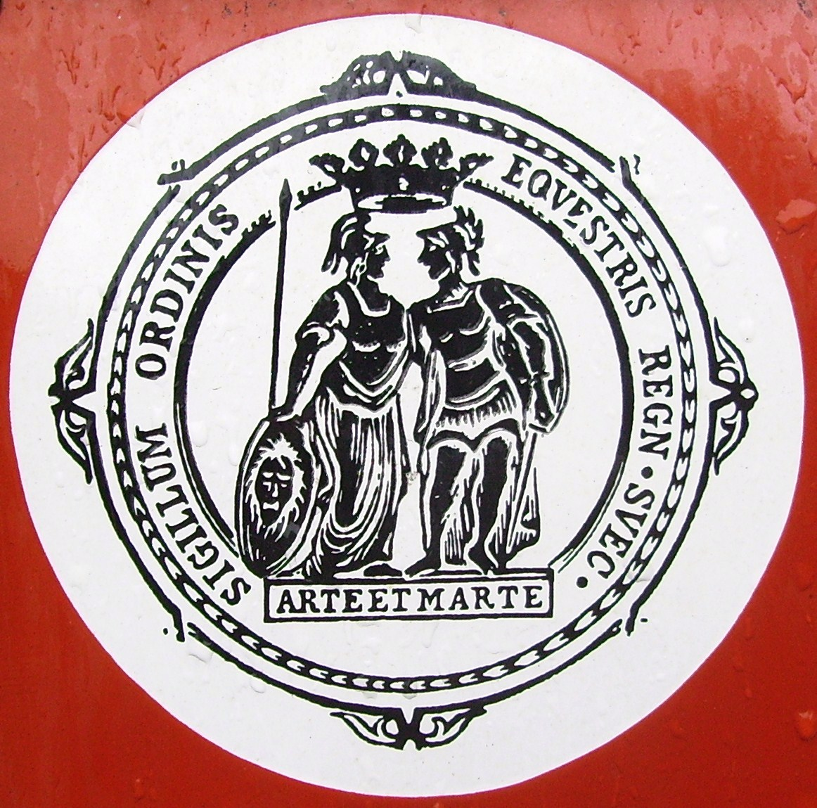 Picture of sign for Swedish nobility by Riddarhuset in Stockholm